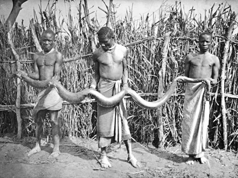 Title: Deutsch-Ostafrika, Riesenschlange Factual corrections and alternative descriptions are encouraged separately from the original description. Additionally errors can be reported at this page to inform the Bundesarchiv. Original historic description: Riesenschlange